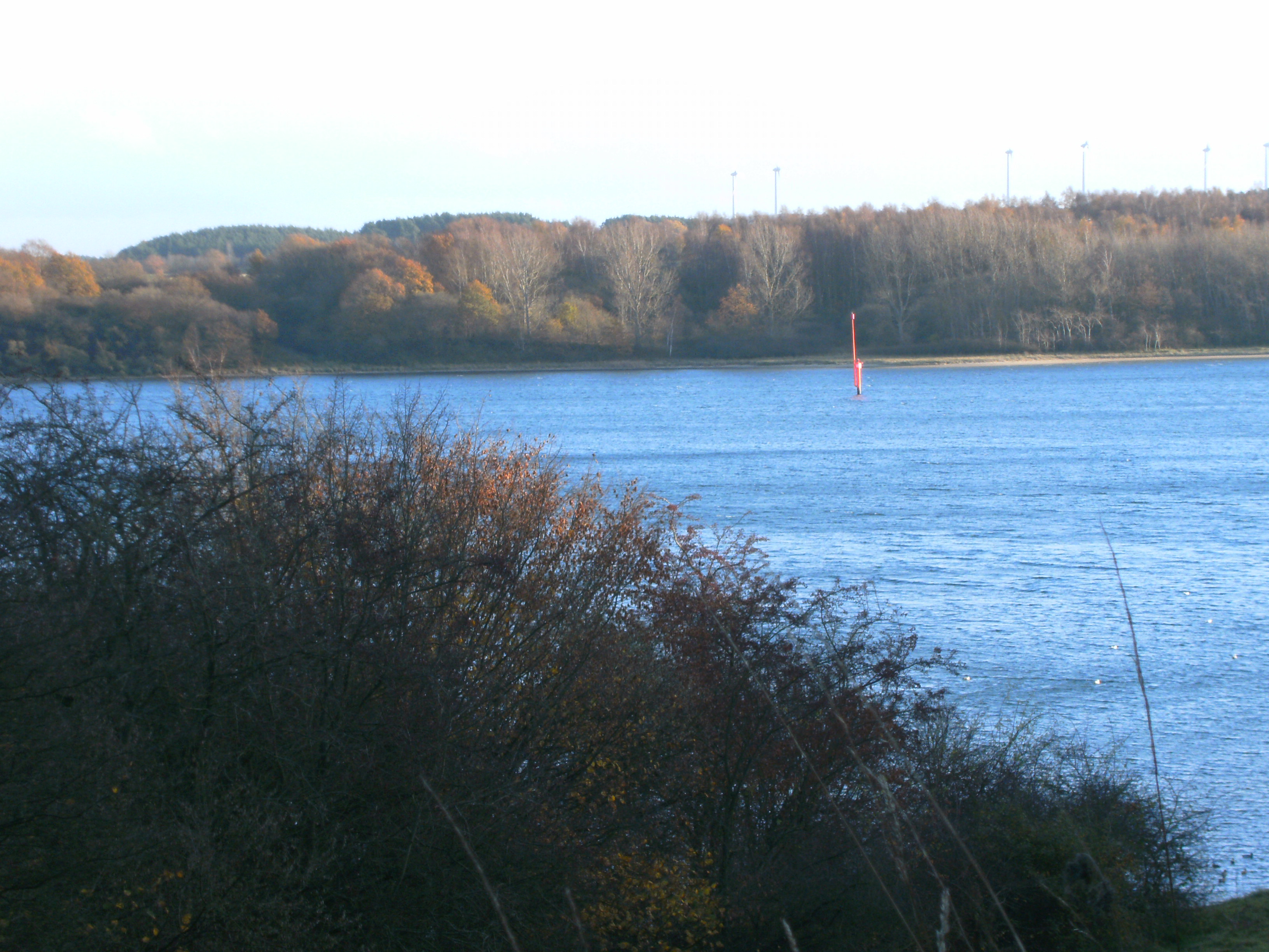 Lübeck, Germany, Dummersdorfer Ufer. View on river Trave and on the state Mecklenburg-Vorpommern (in